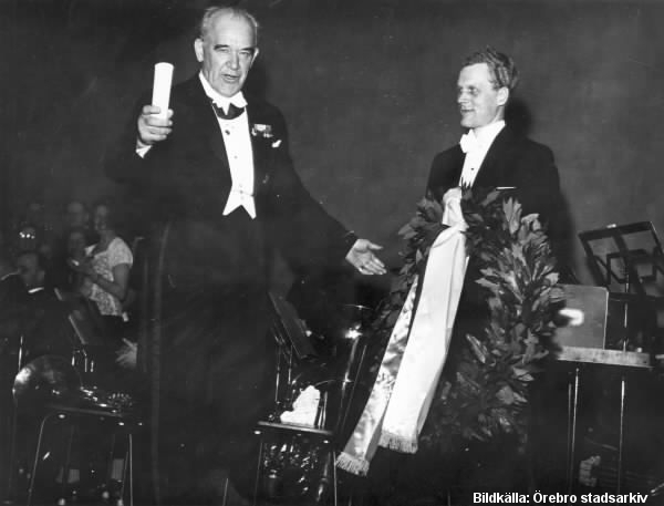 The conductors Tor Mann and Rune Larsson in Örebro konserthus.